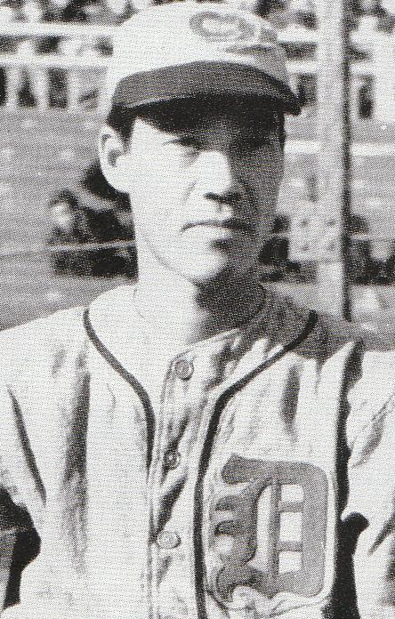 A professional baseball player from Japan, Michio Nishizawa.